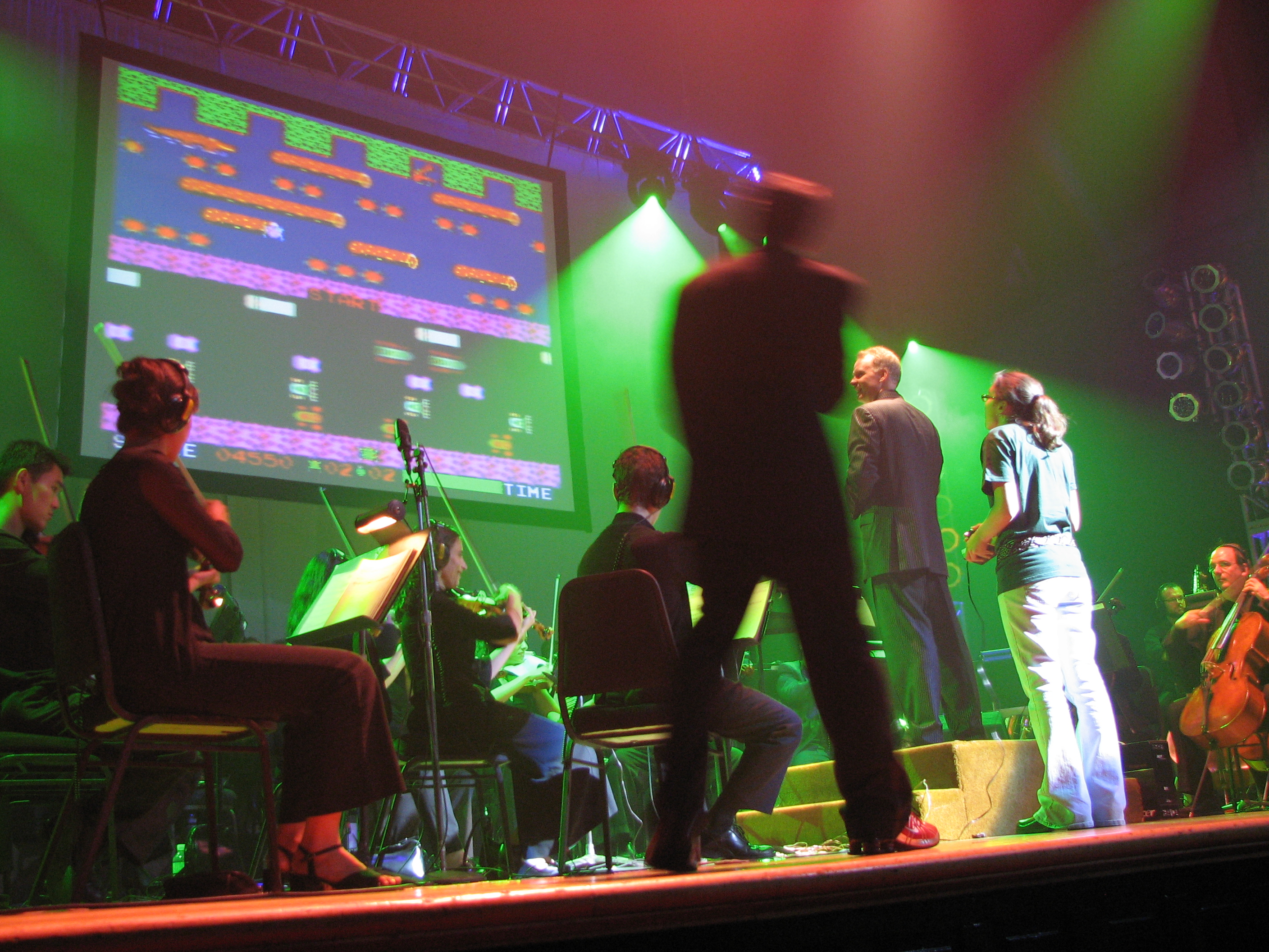 The young woman in the picture won the competition!